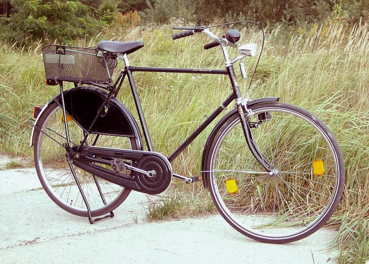 Dutch city bicycle 'Pointer Corzano'. Gdańsk, Poland